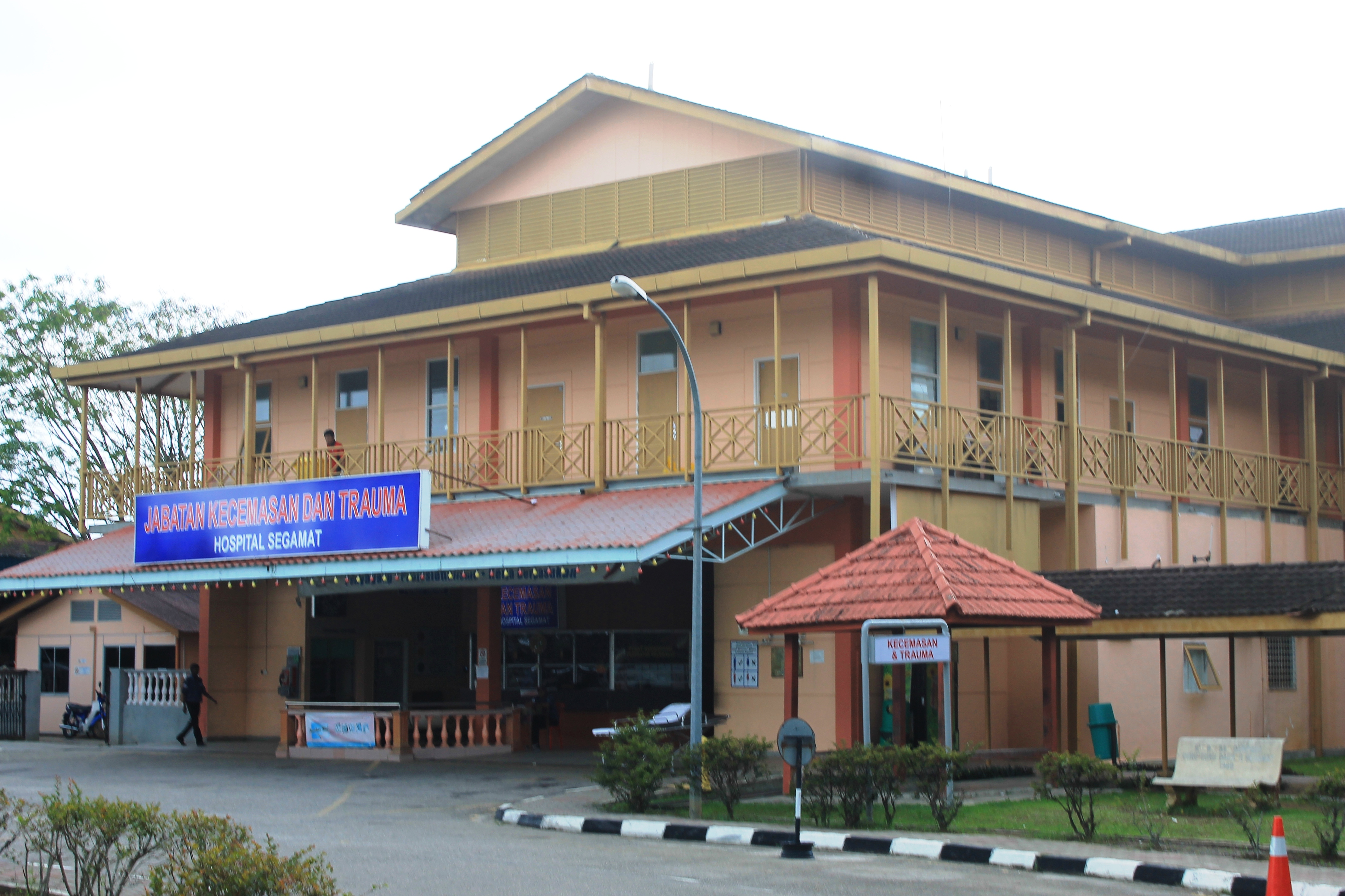 Emergency and Trauma department of Hospital Segamat.